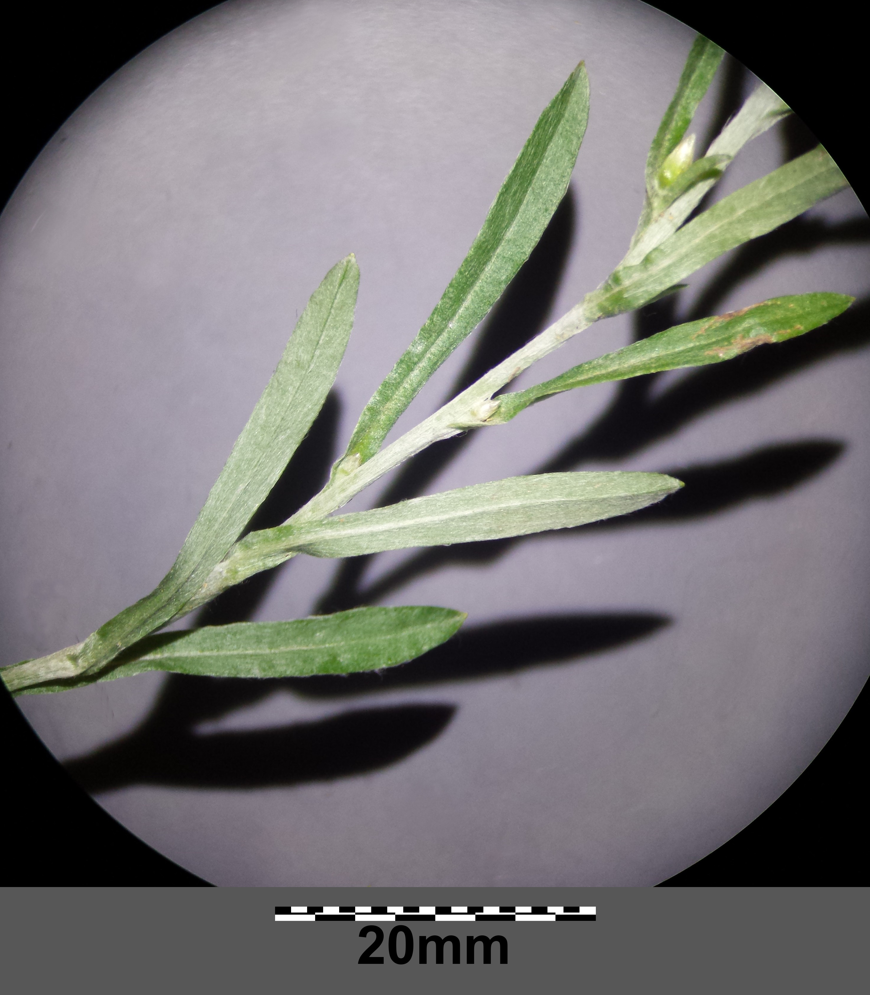 Stem with leaves Taxonym: Gnaphalium sylvaticum ss Fischer et al. EfÖLS 2008 ISBN 978-3-85474-187-9 Location: next to Bruderndorf, Langschlag, district Zwettl, Lower Austria - ca. 800 m a.s.l. Habitat: wayside within a wood